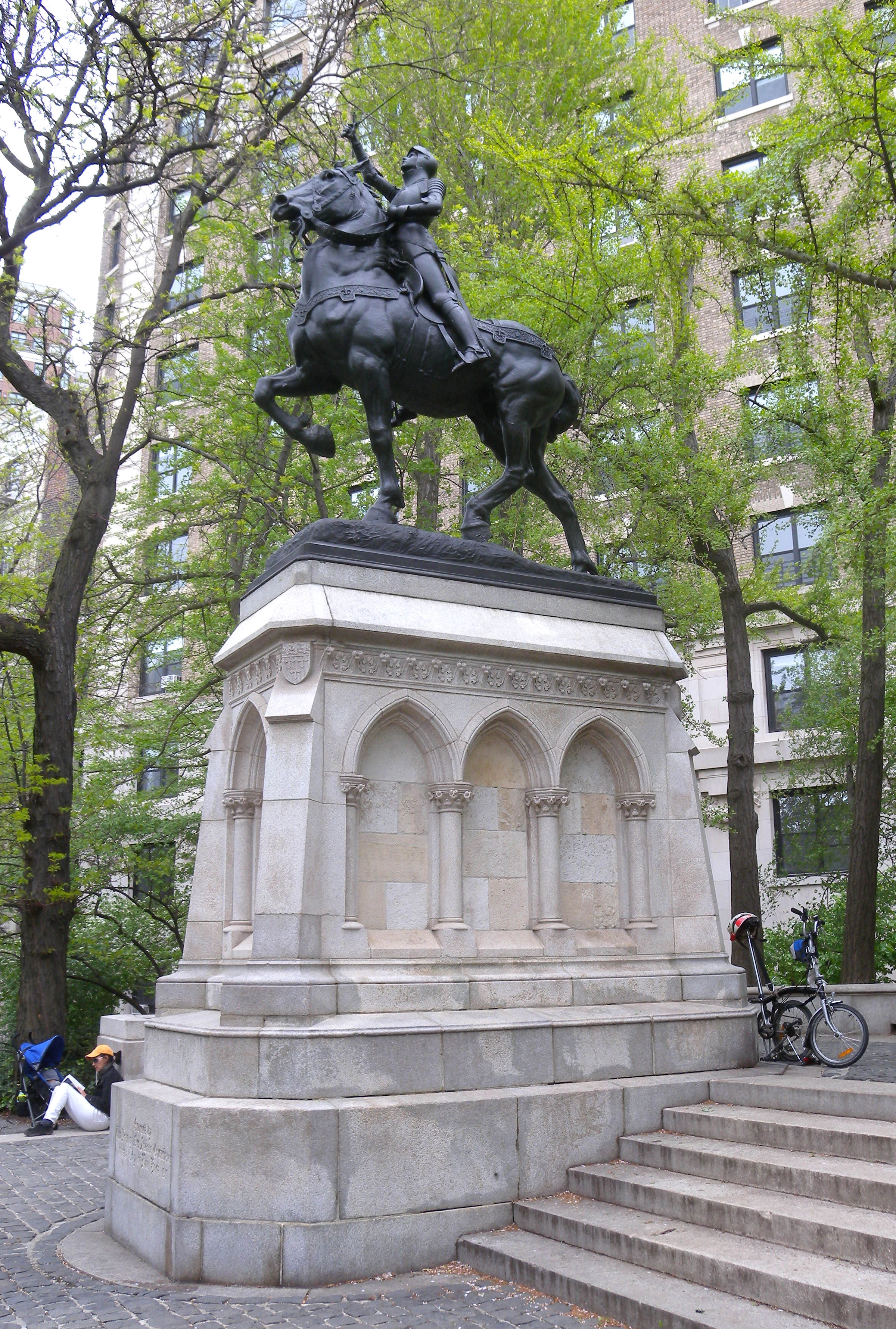 Looking up and northeast at Joan statue at the foot of 93rd Street on a sunny afternoon.